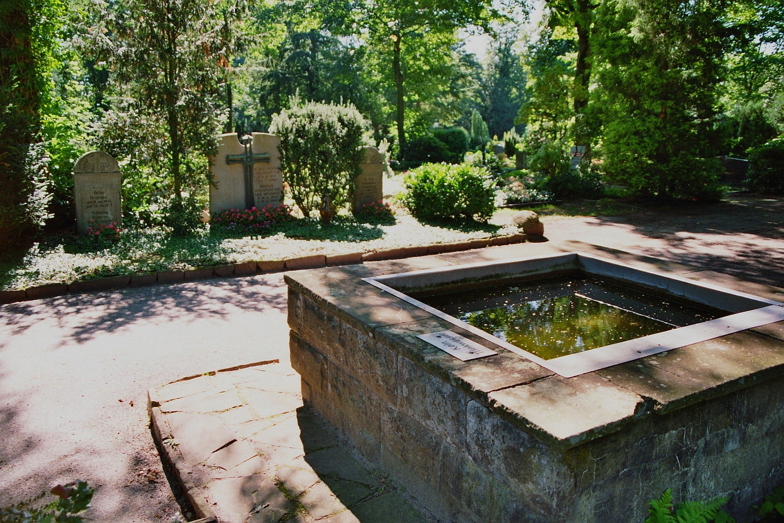 One of the many water basins at the Central Cemetery (Zentralfriedhof) in Ibbenbüren, Kreis Steinfurt, North Rhine-Westphalia, Germany.